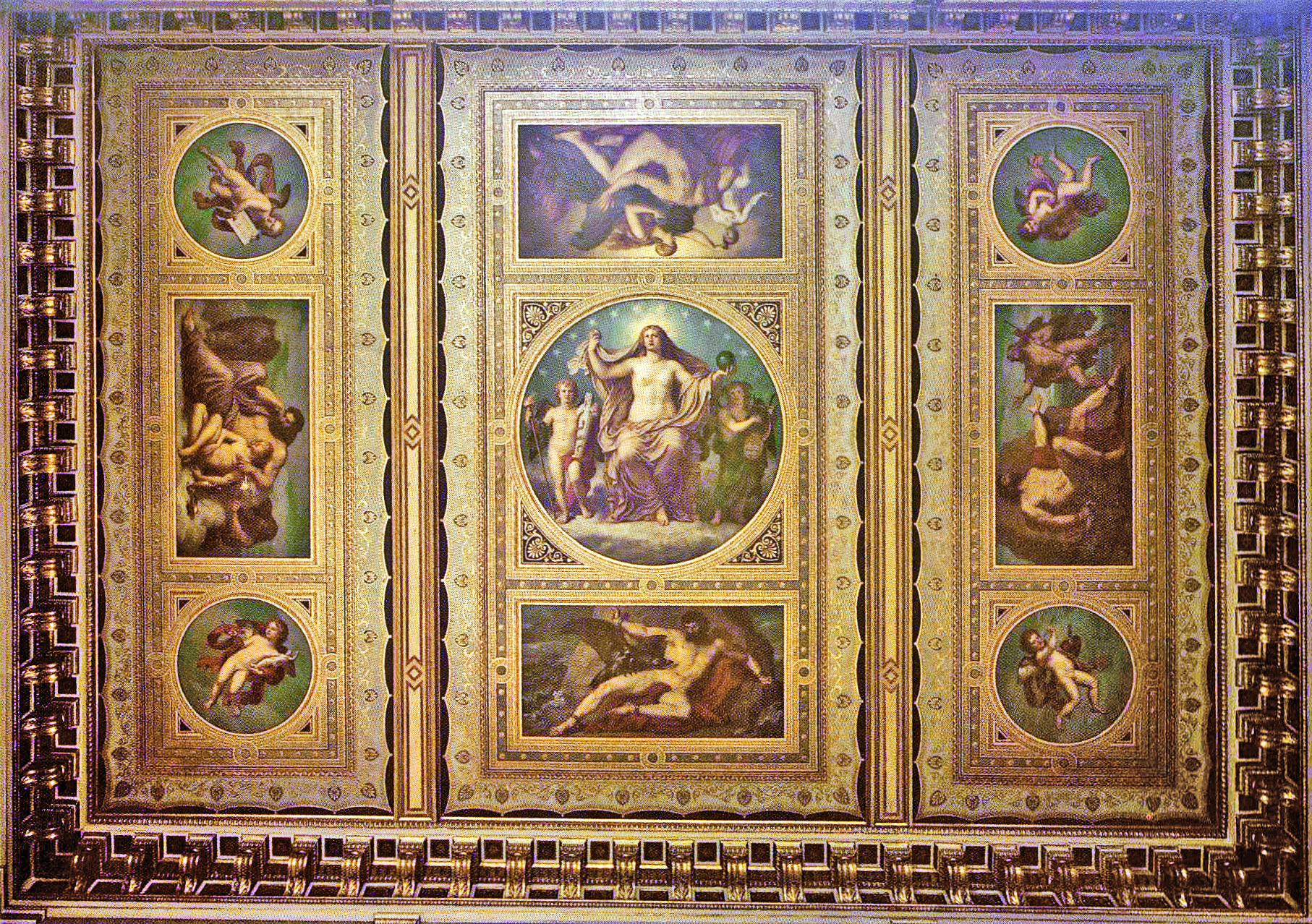 Ceiling painting Augusteum (Oldenburg) LocationOldenburg, GermanyCoordinates53° 08′ 10.23″ N, 8° 12′ 59.71″ E Established1981Website[1]